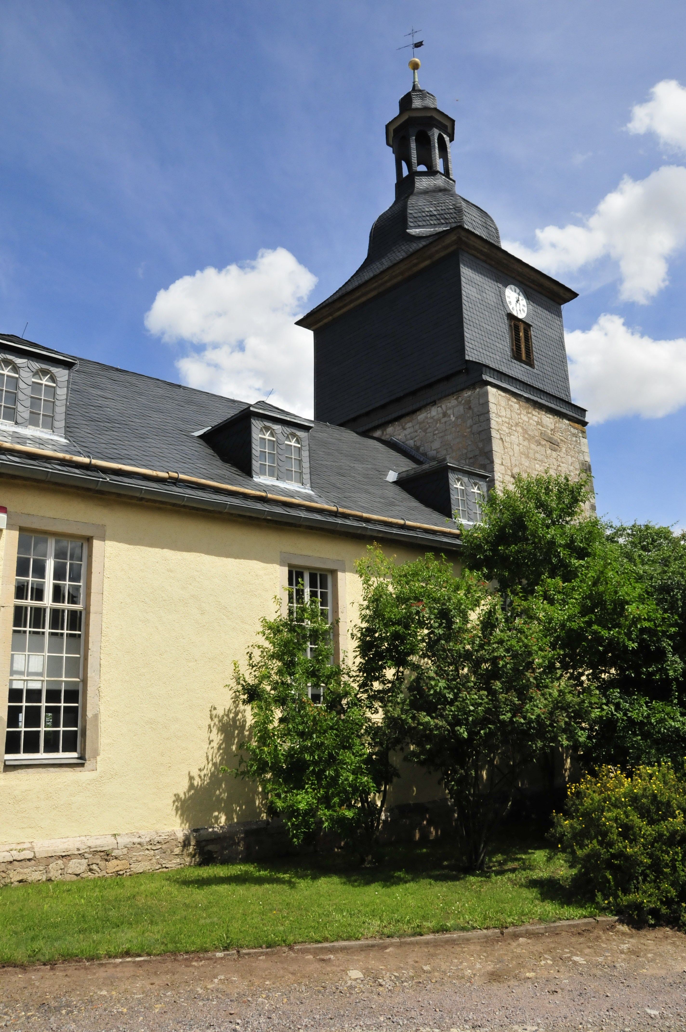 Haina (Gotha), church